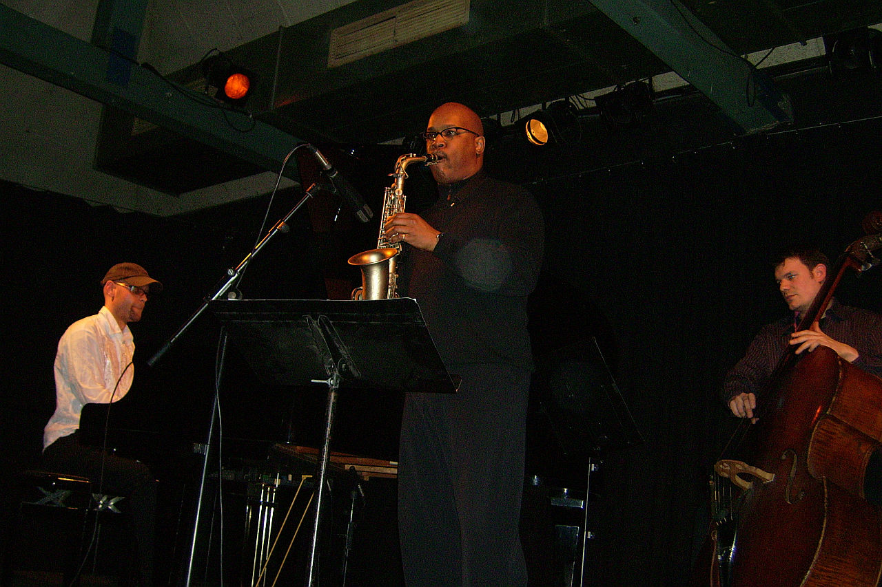 Jazz-band VEIN from Basel,Switzerland on stage 2008 in Kulturladen kfz Marburg, featuring Greg Osby